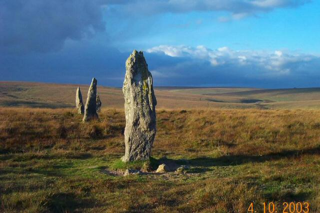 The Cornwood Maidens - Dartmoor. The Cornwood Maidens - part of the Staldon stone row that strides across the top of the hill. The row is from the Bronze age. Stall moor and the Erme valley are in the background.